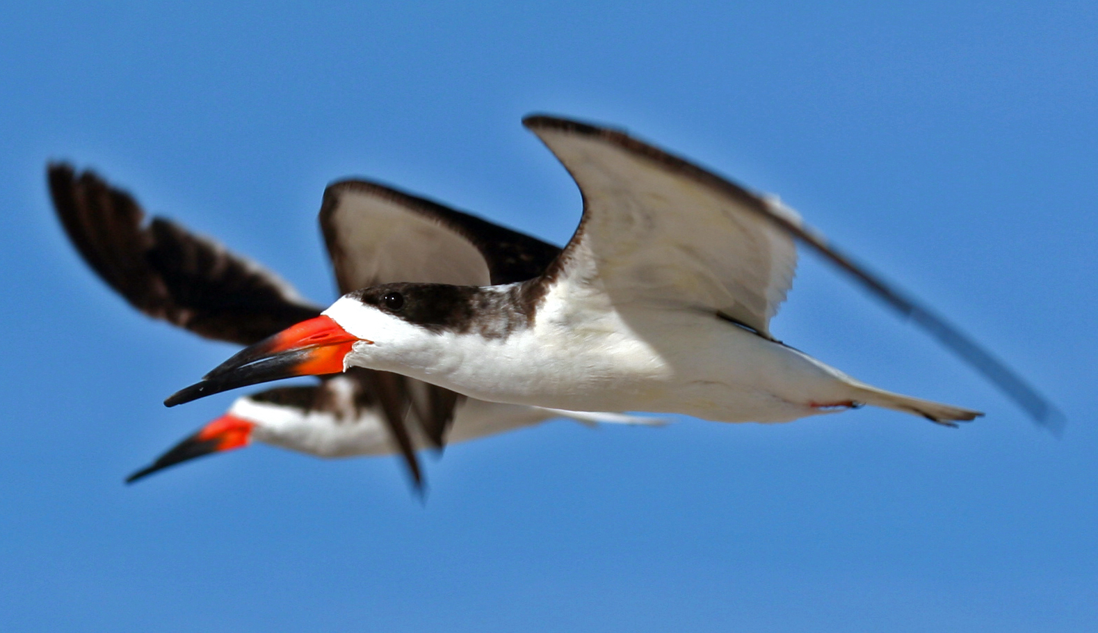 Closeup shot of 2 Black Skimmer birds